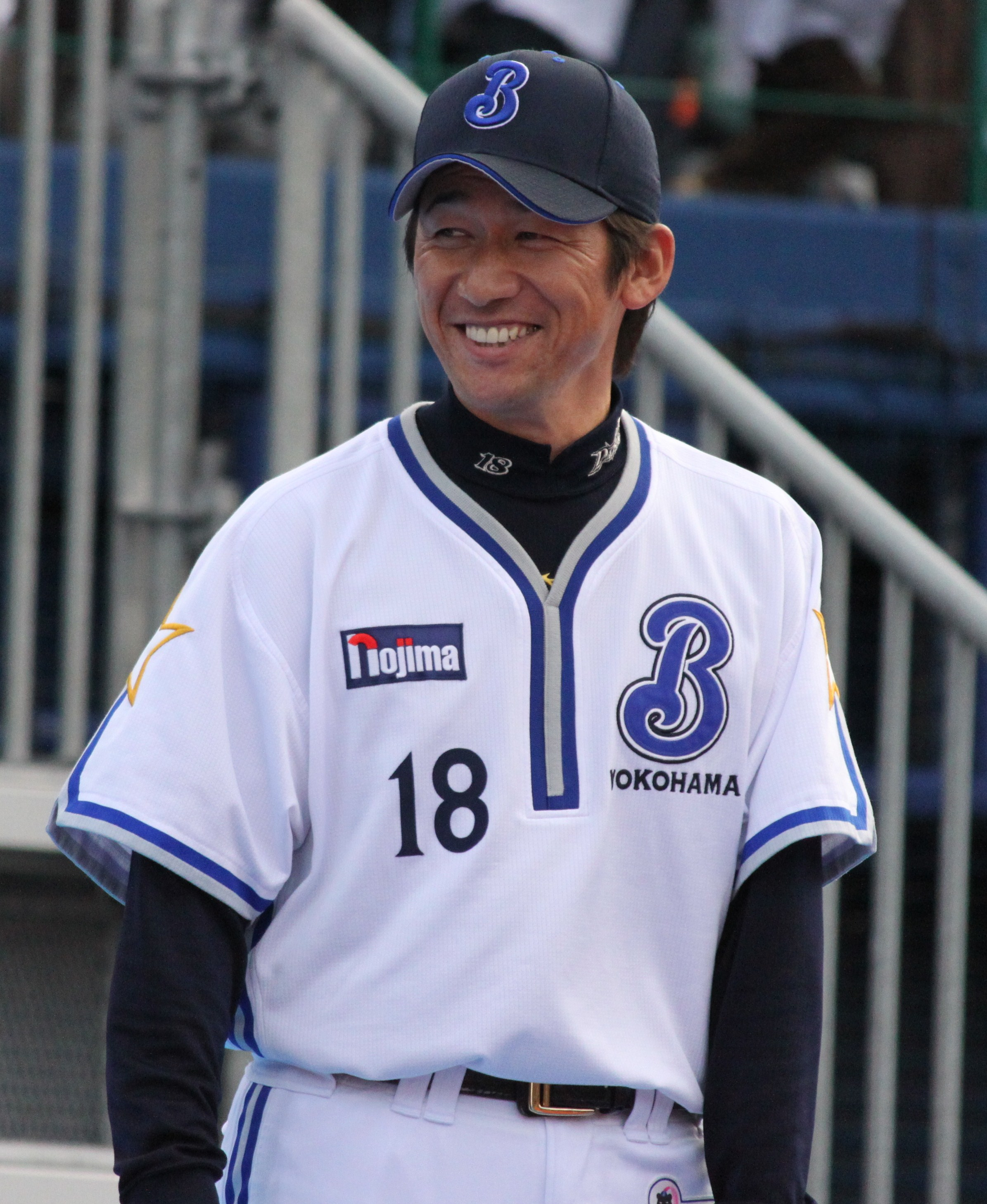 Daisuke Miura, pitcher of the Yokohama BayStars, at Yokohama Stadium.